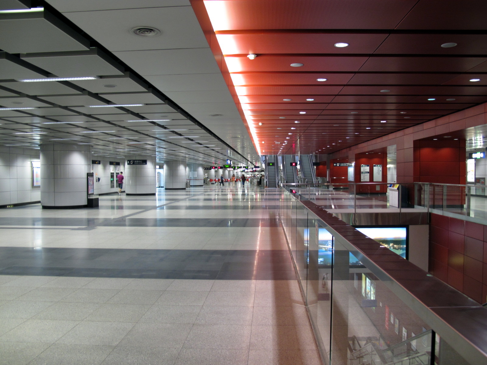 Tsuen Wan West Station Concourse 荃灣西站大堂